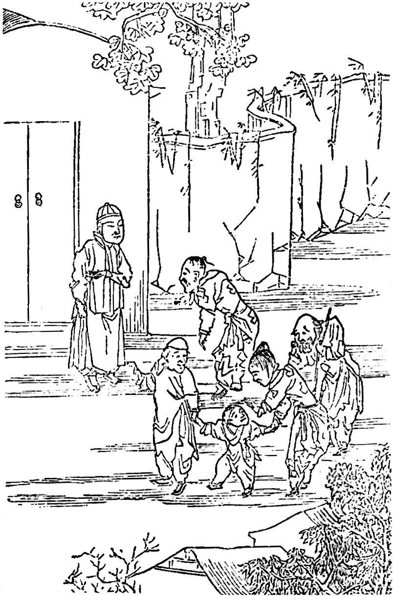 Children being sold during a famine from The Famine in China, Illustrations by a Native Artist